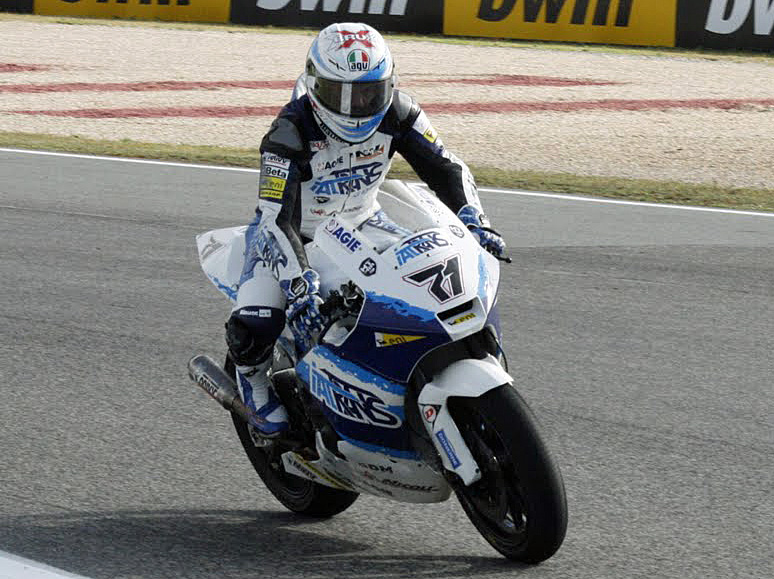 Claudio Corti 2011 Estoril